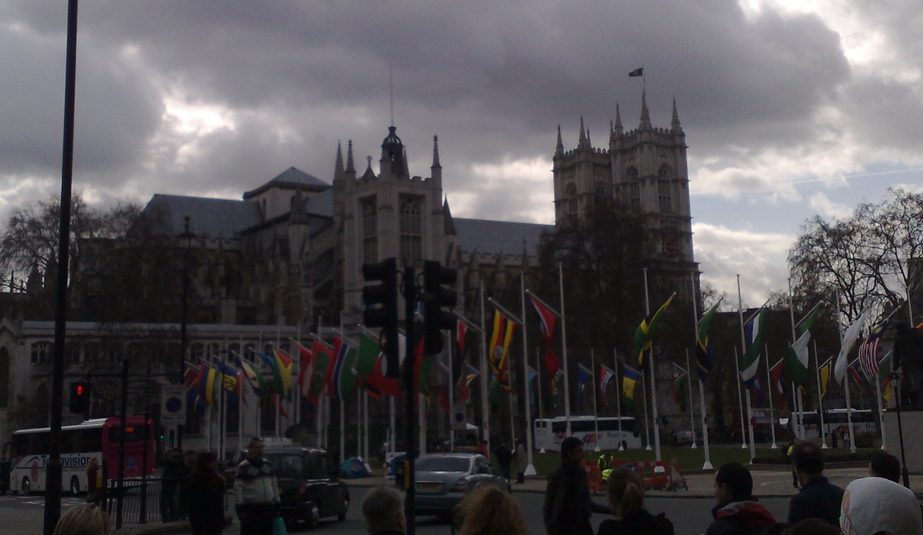 Commonwealth Day 2009. Outside Westminster Abbey. Flags of members of Commonwealth flown outside the abbey. Commonwealth Flag flown on top of the abbey. Picture is cropped.